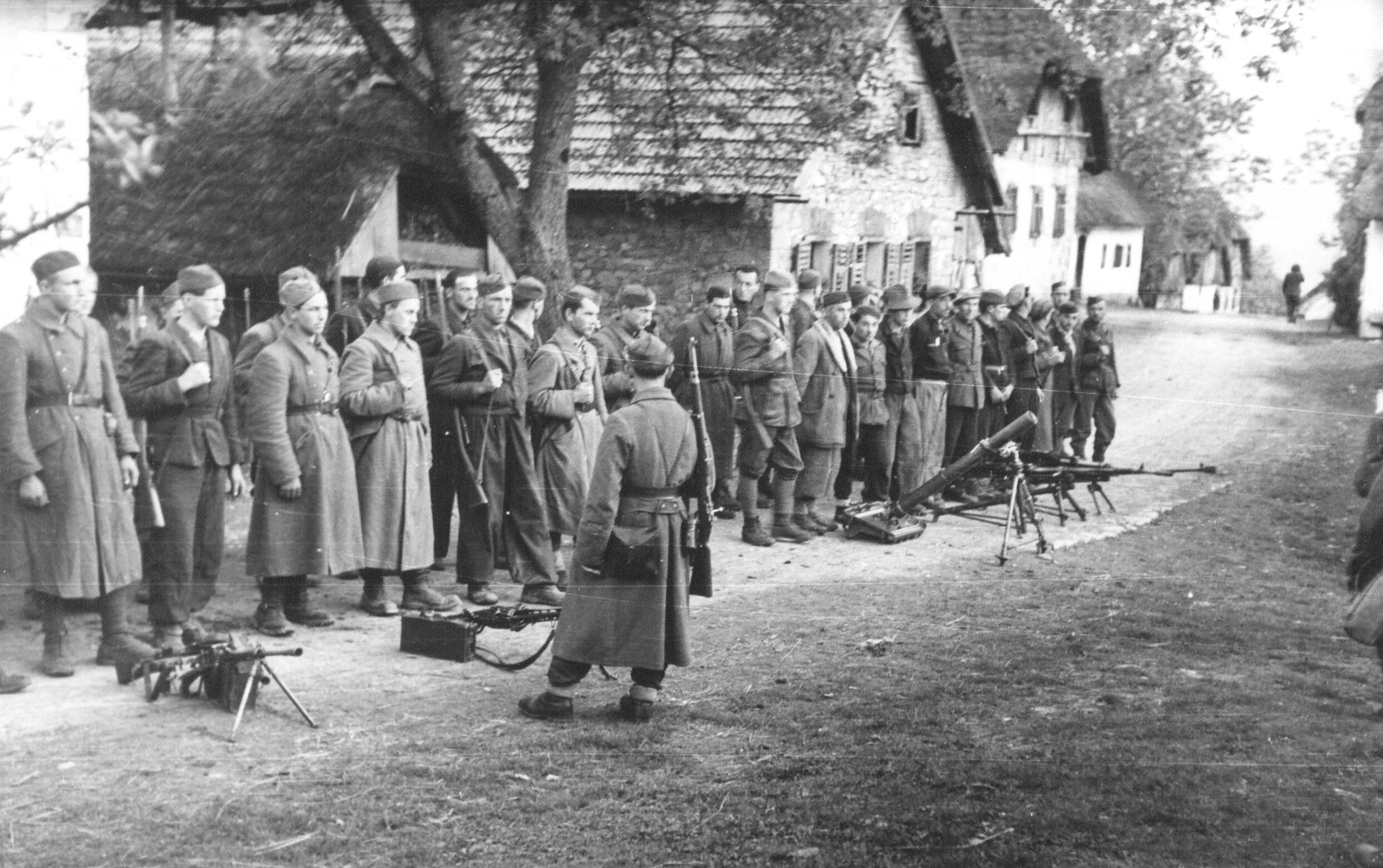 Mobilizacija novih borcev v partizanske enote